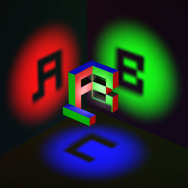 A 3-dimensional ambigram of the letters A, B and C. The form in the middle will appear to read each letter separately when viewed from different angles, in the style of the cover for Gödel, Escher, Bach.